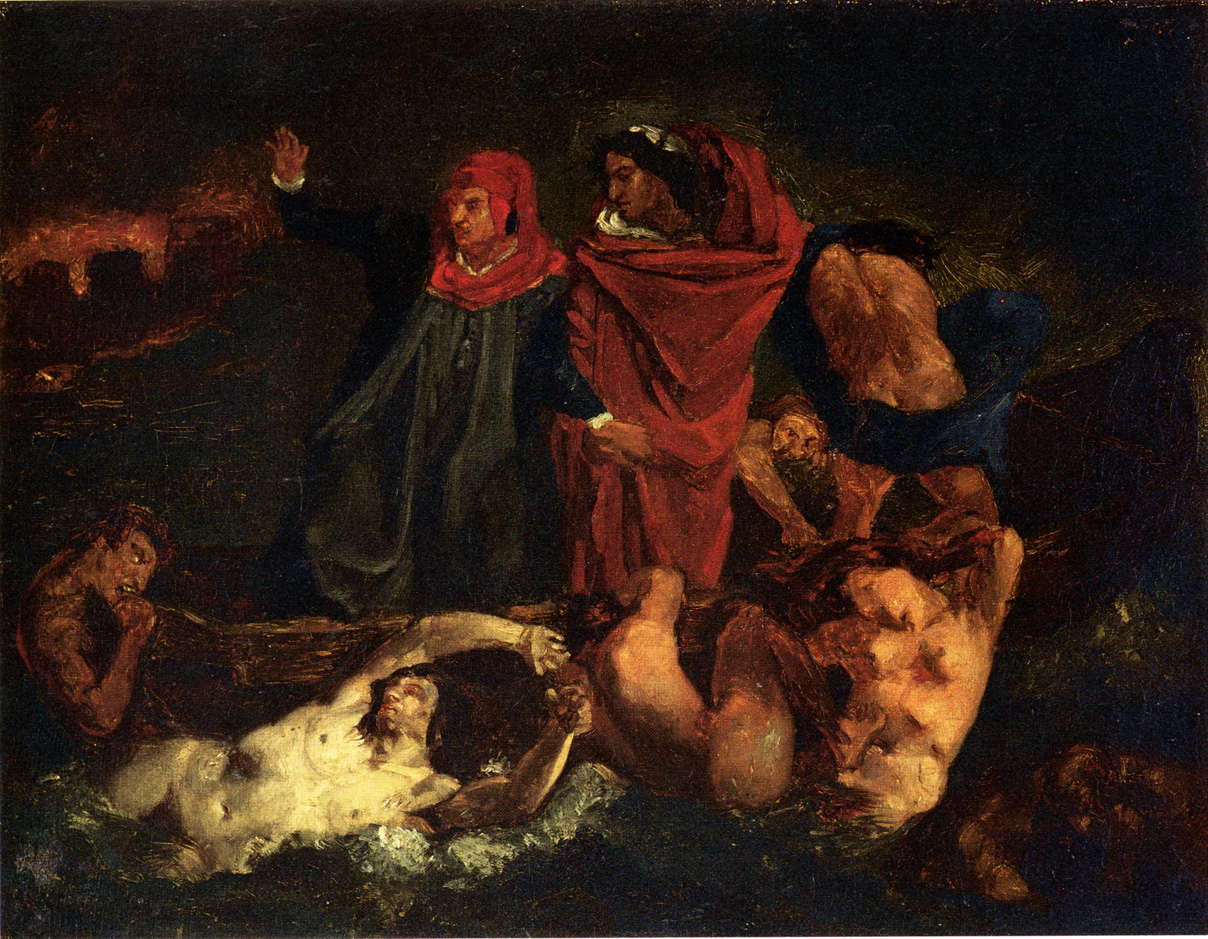 After Delacroix's „The Barque of Dante“